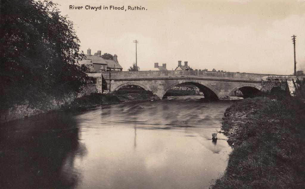 River Clwyd - old bridge near Cae Ddol, Ruthin